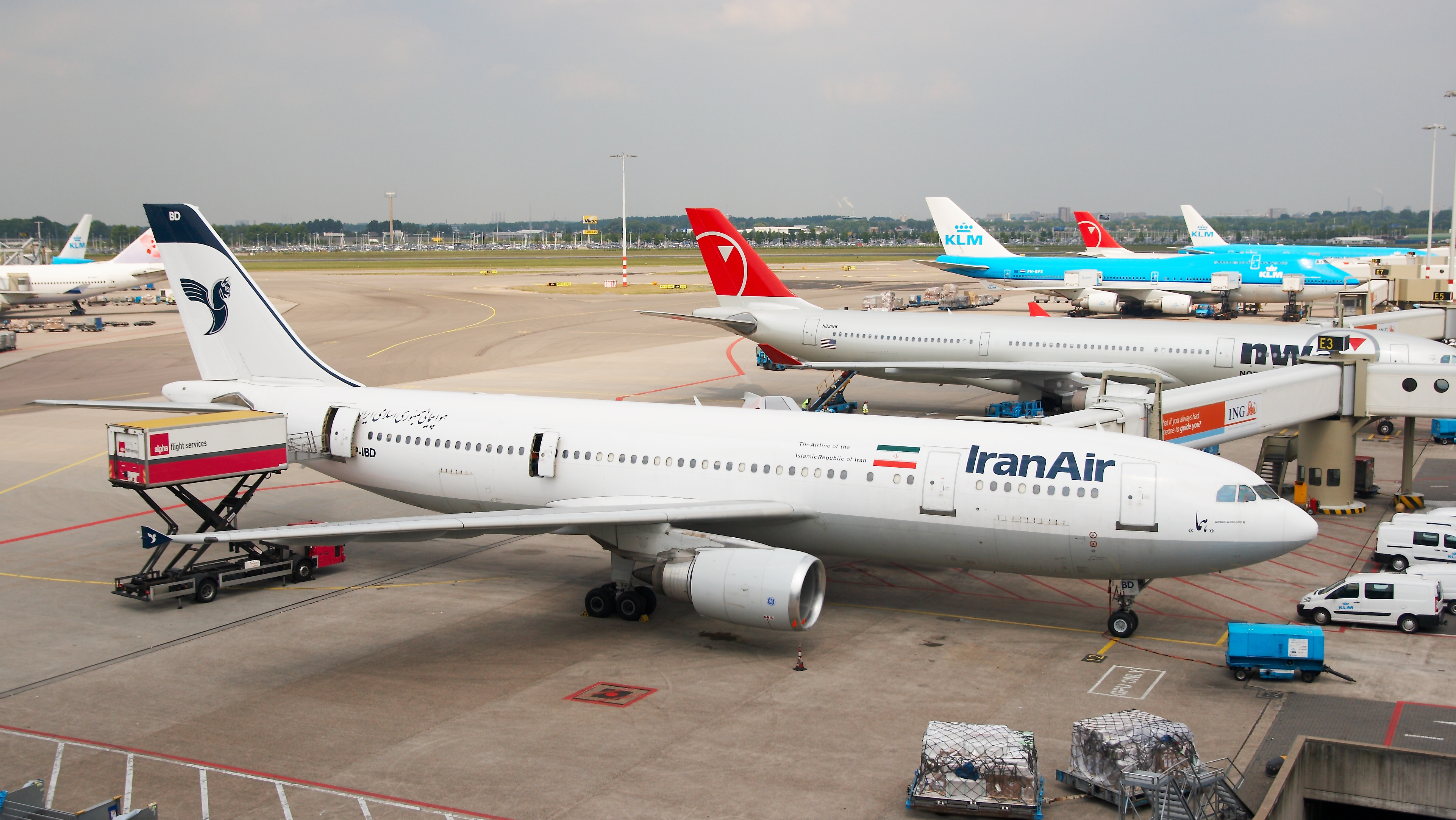 Aircraft: Airbus A300B4-605R Airline: Iran Air Registration/CN: EP-IBD (cn 696) Place: Amsterdam - Schiphol (AMS / EHAM)